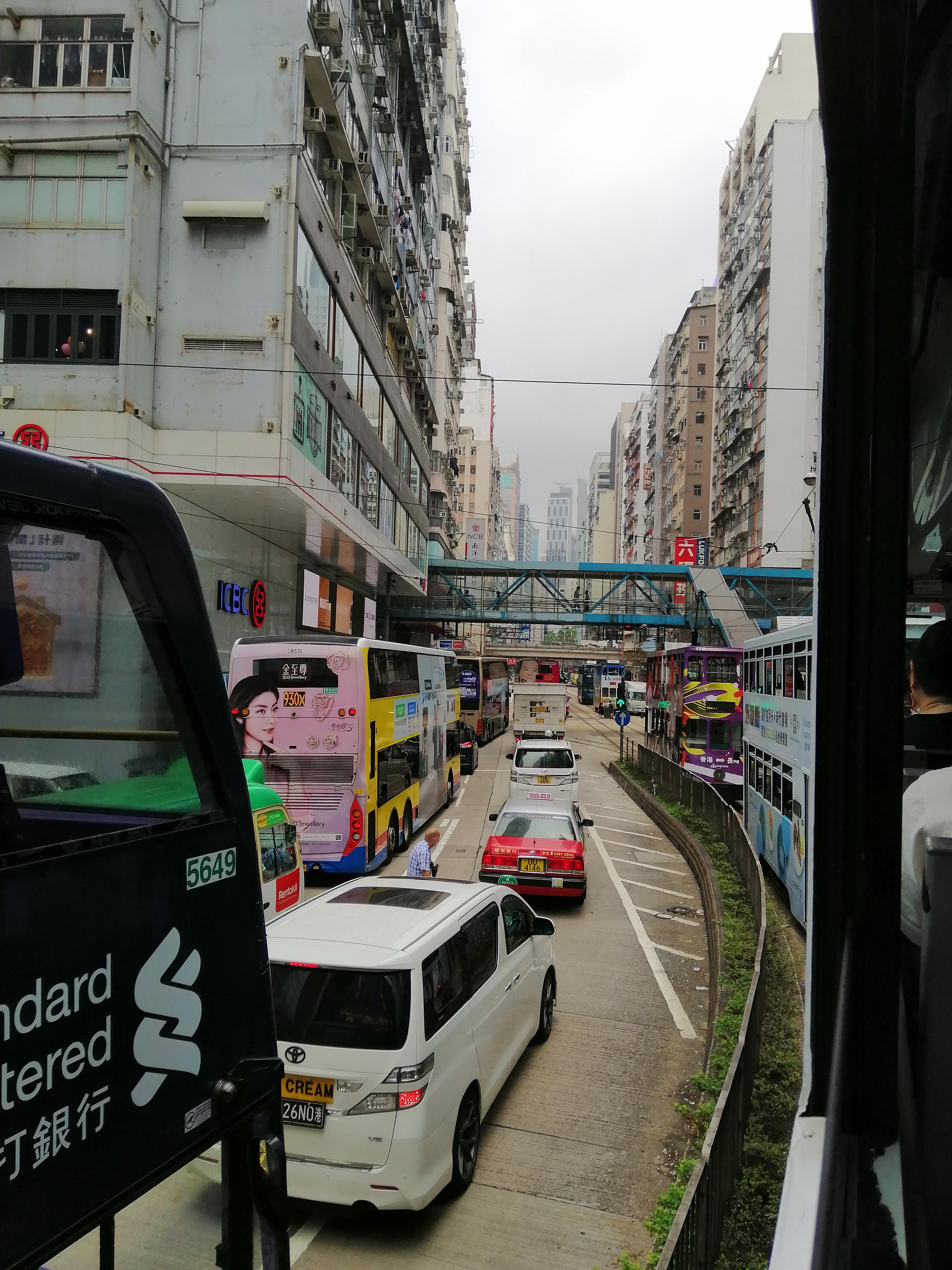 Scenery of Hong Kong Island